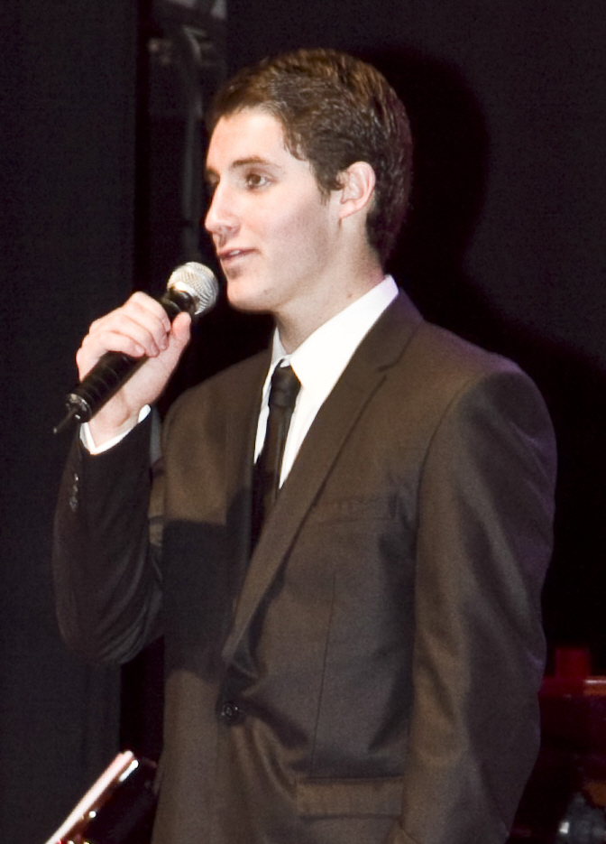 Matt McGrath at the 18th CFC Annual Gala & Auction, in February 2012